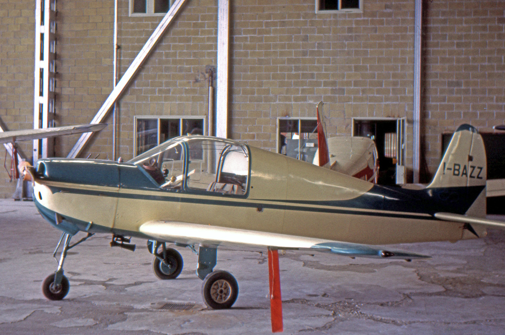 Ambrosini F.4 Rondone I I-BAZZ Milan Linate 31 July 1965